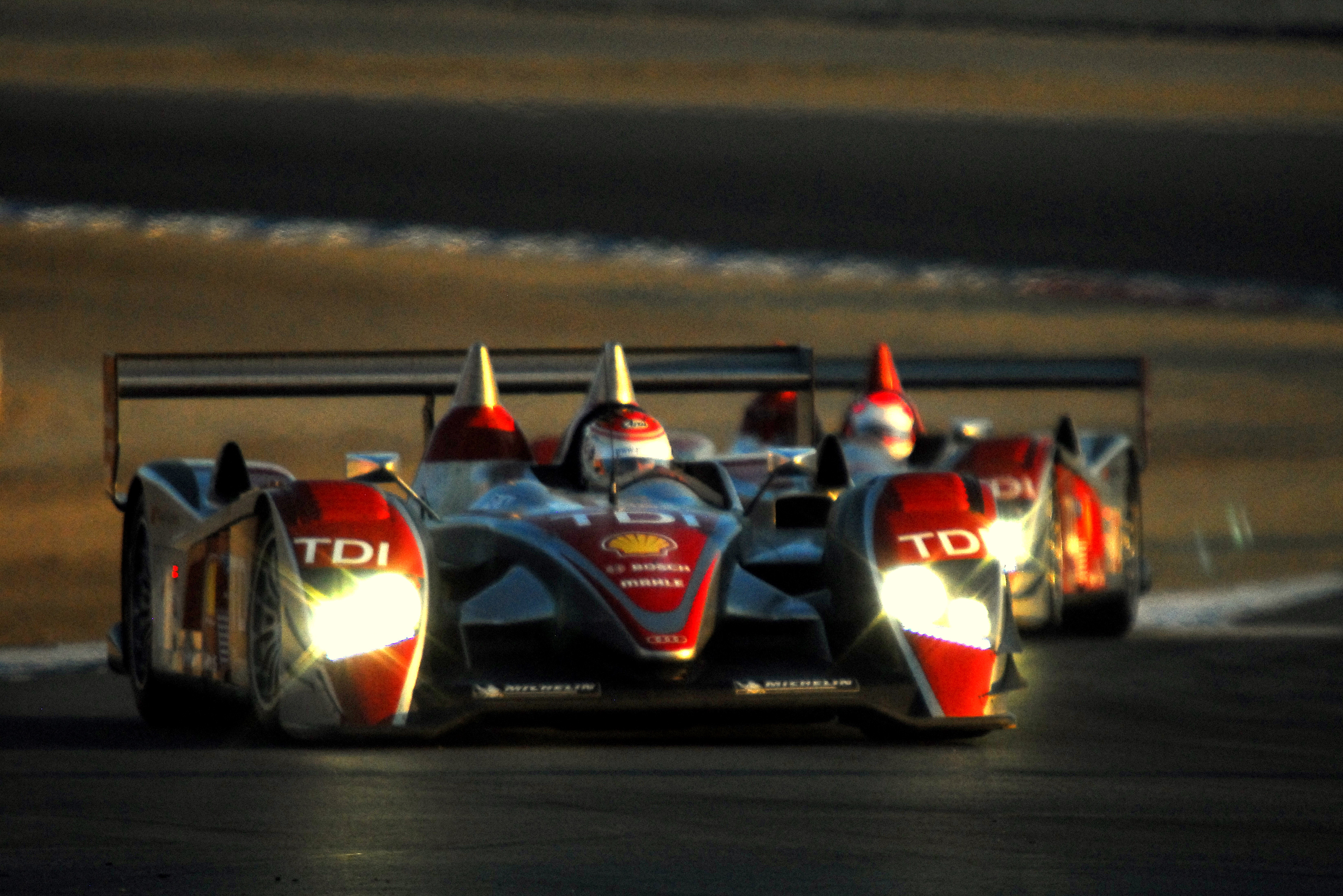 Audi Racing North America's Audi R10 TDIs at the 2008 Monterey Sports Car Championships.